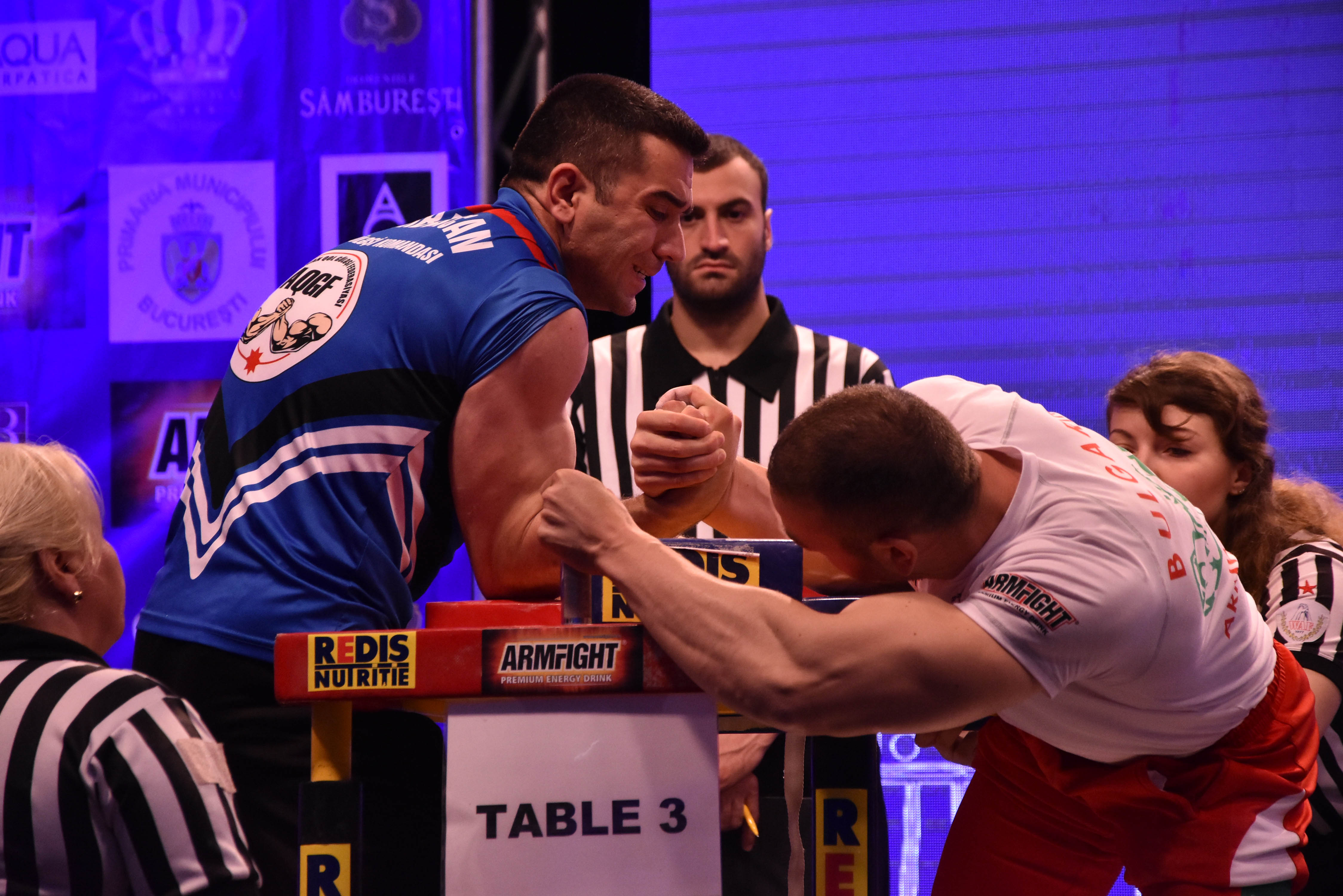 Arm wrestling game in action with the judge Mr. Karim Andary